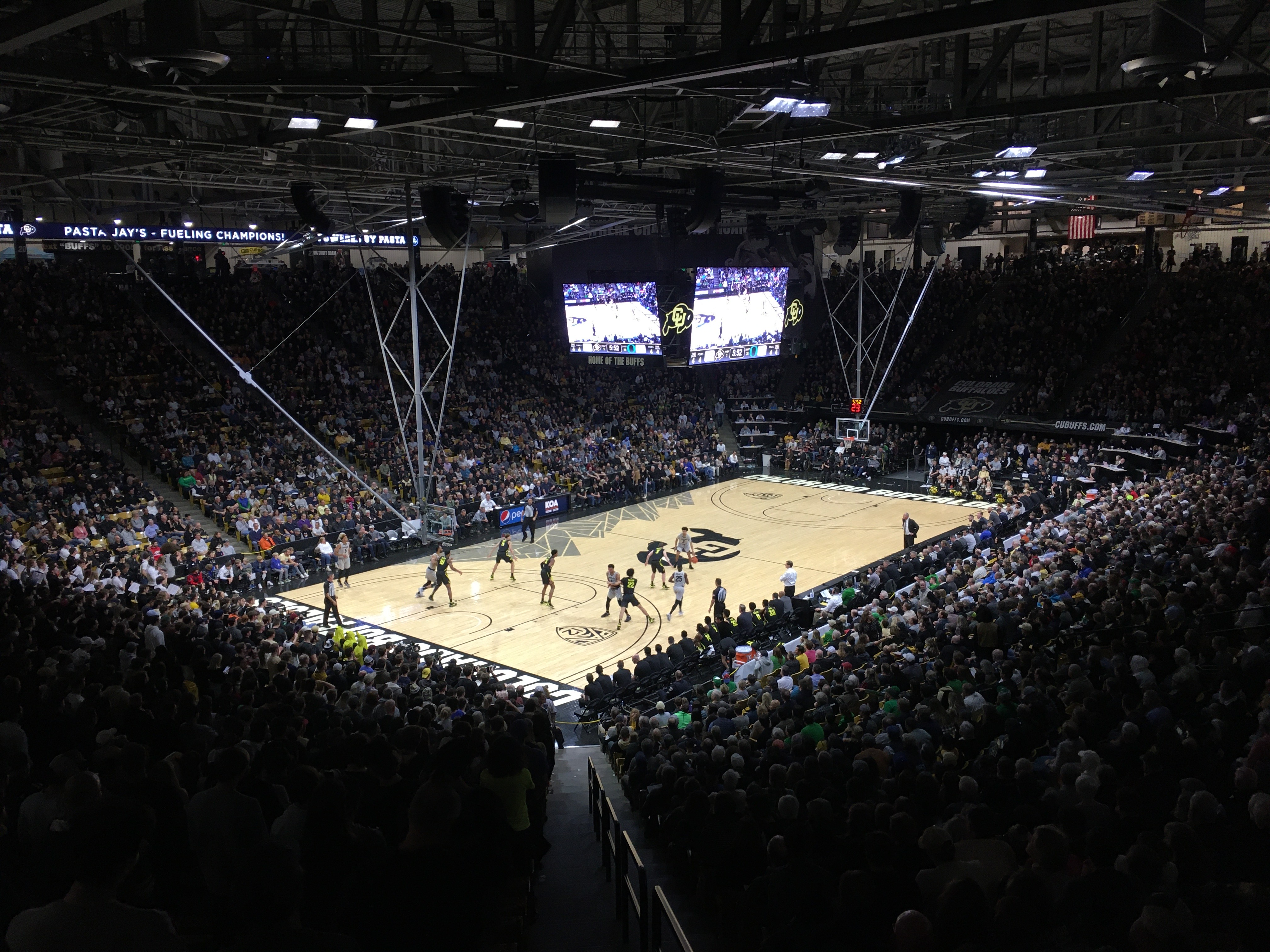 The CU events Center as it appeared on January 2, 2020